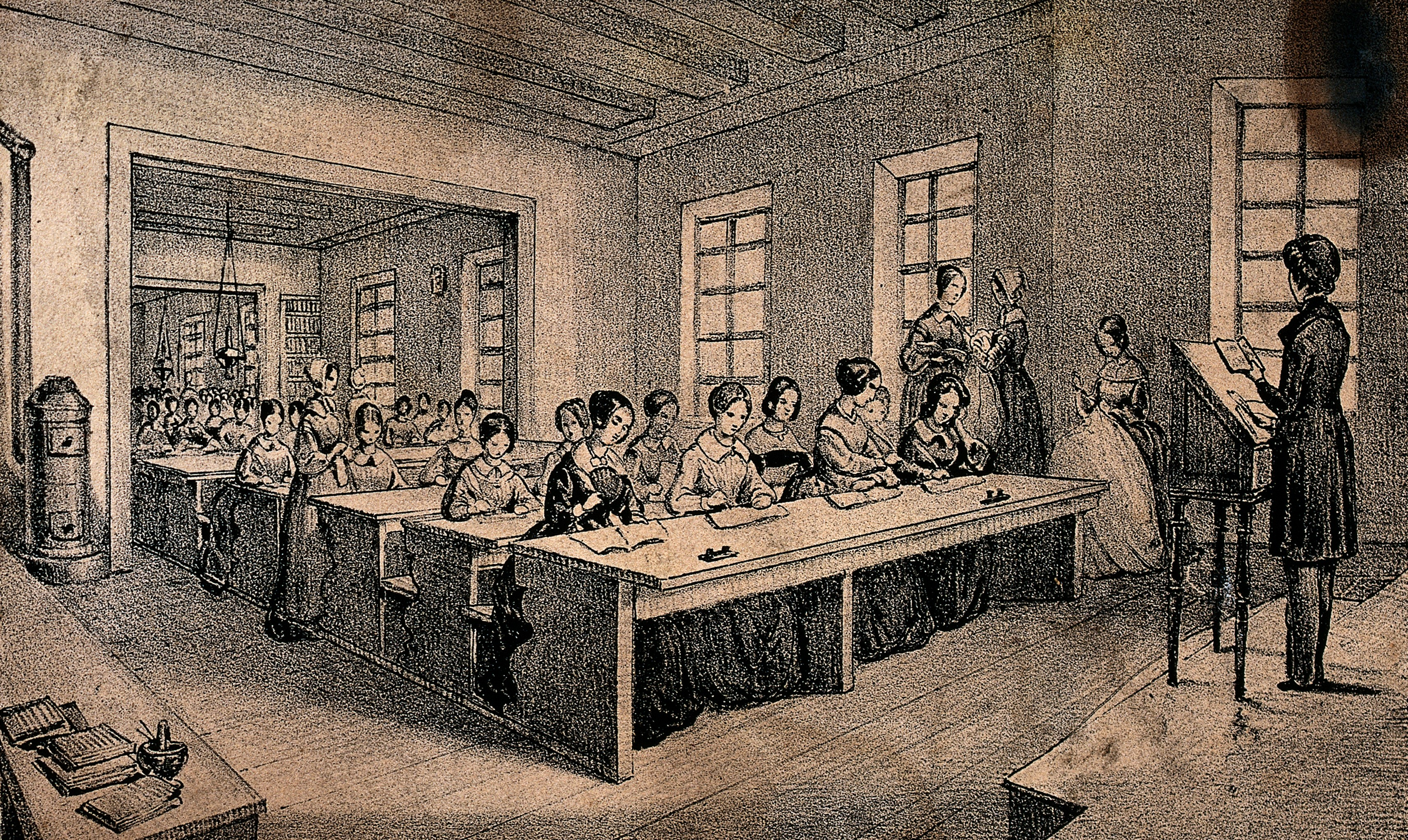 A classroom with children sitting at long tables and a teacher standing with a book in her hand. Lithograph by J.B. Sonde. Iconographic Collections